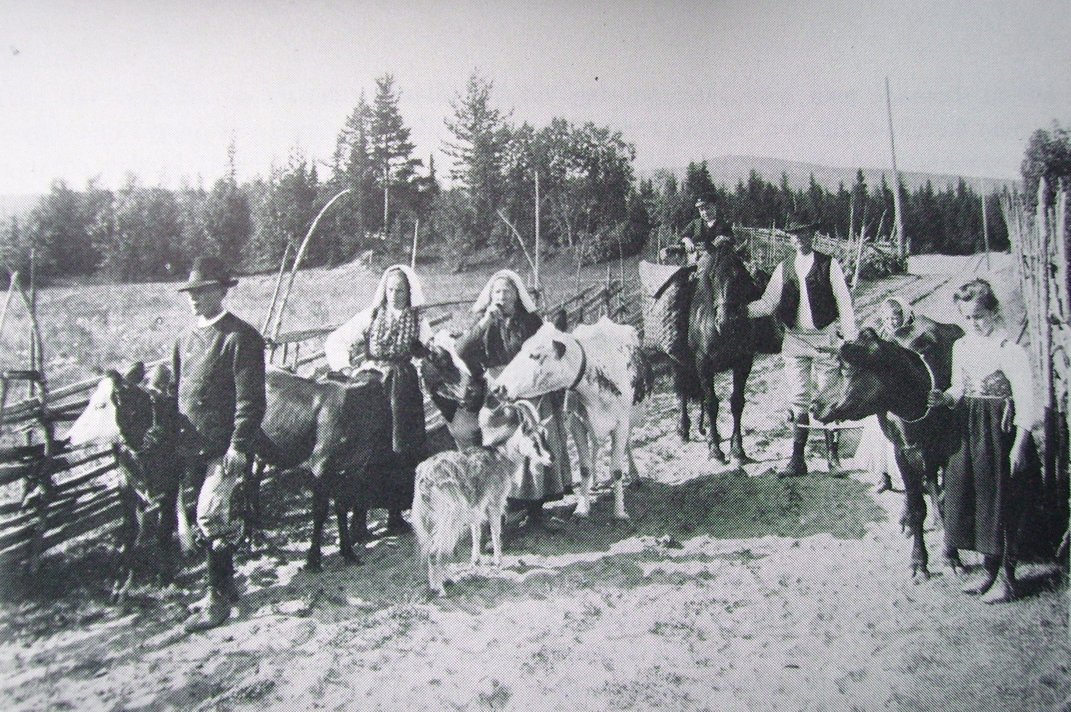 Picture of cattle drive in Gagnef, Dalarna